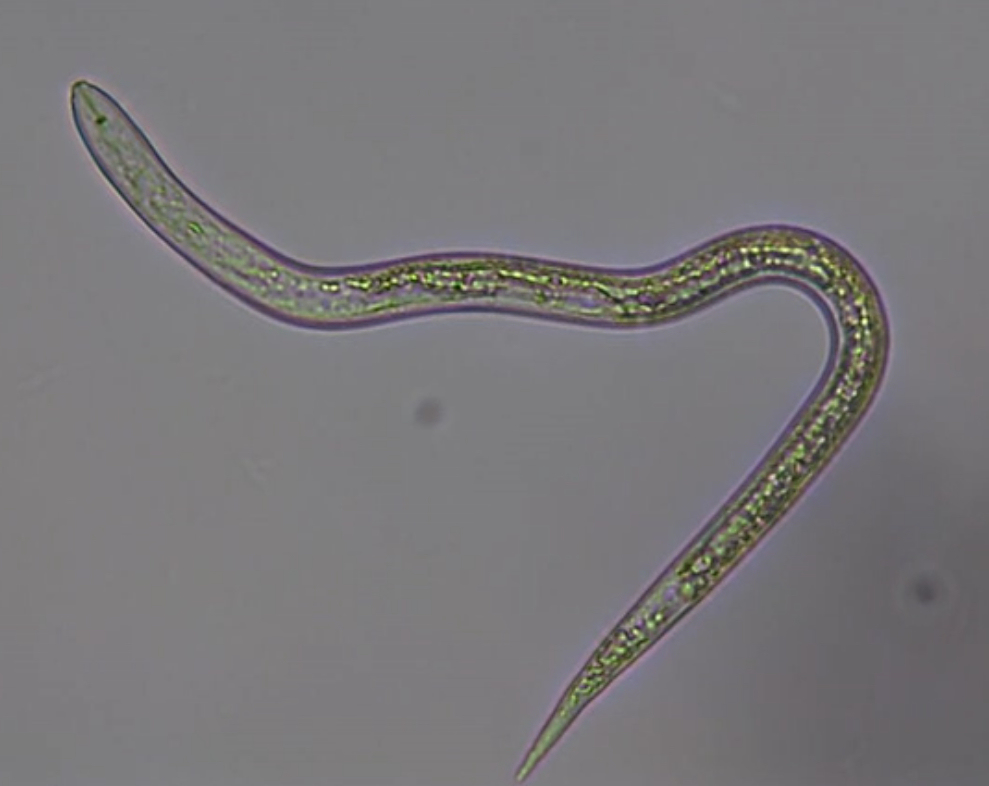 screenshot Meloidogyne incognita J2-larva, The J2 penetrates near the root tip and establishes a feeding site near the vascular stele, where it molts and becomes a sedentary endoparasite.